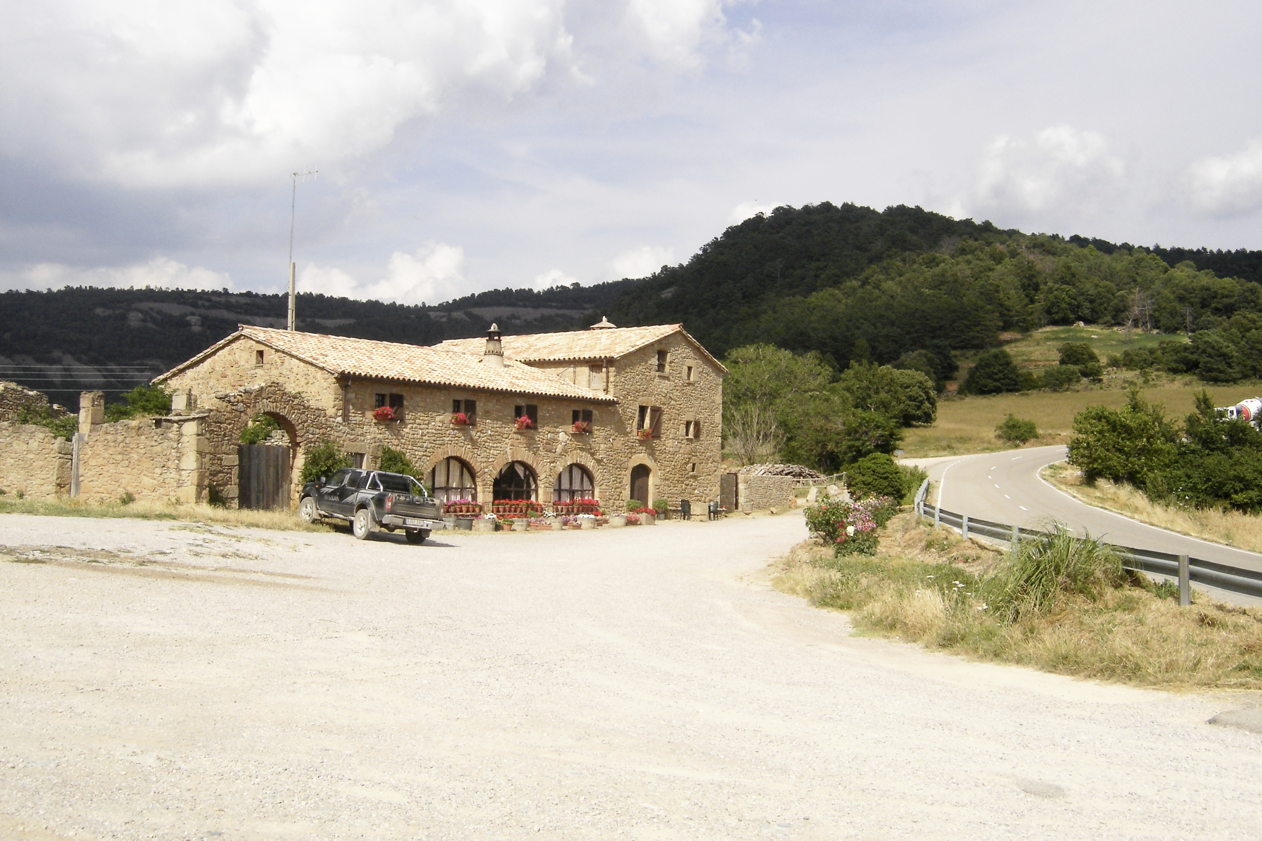 L'hostal del Cap del Pla (Lladurs) (Solsonès)